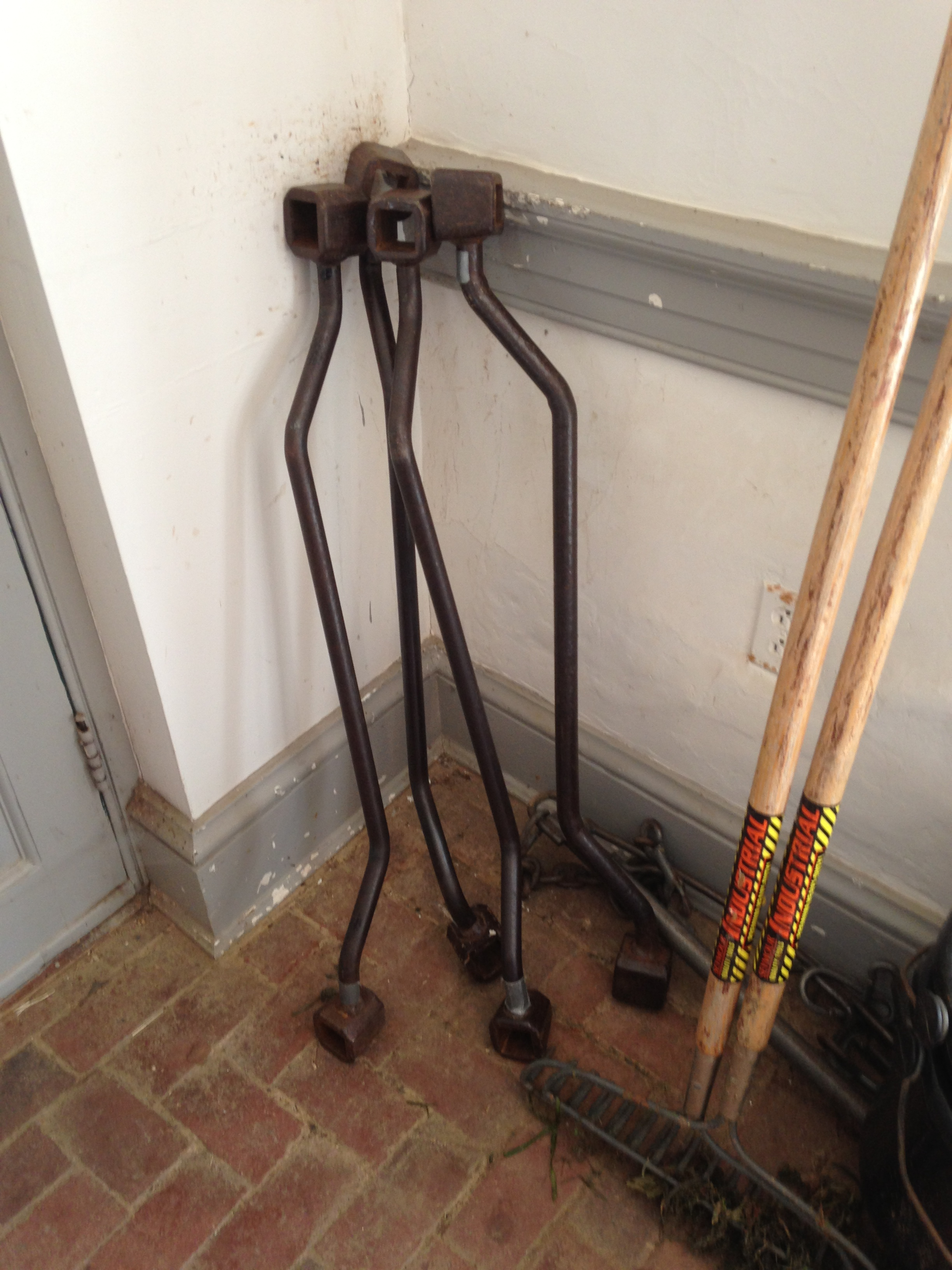 A collection of lock windlasses (for opening lock wickets) and rakes (for clearing garbage out of lock) in Great Falls, MD, Lock 20. These windlasses have sockets on both sides.